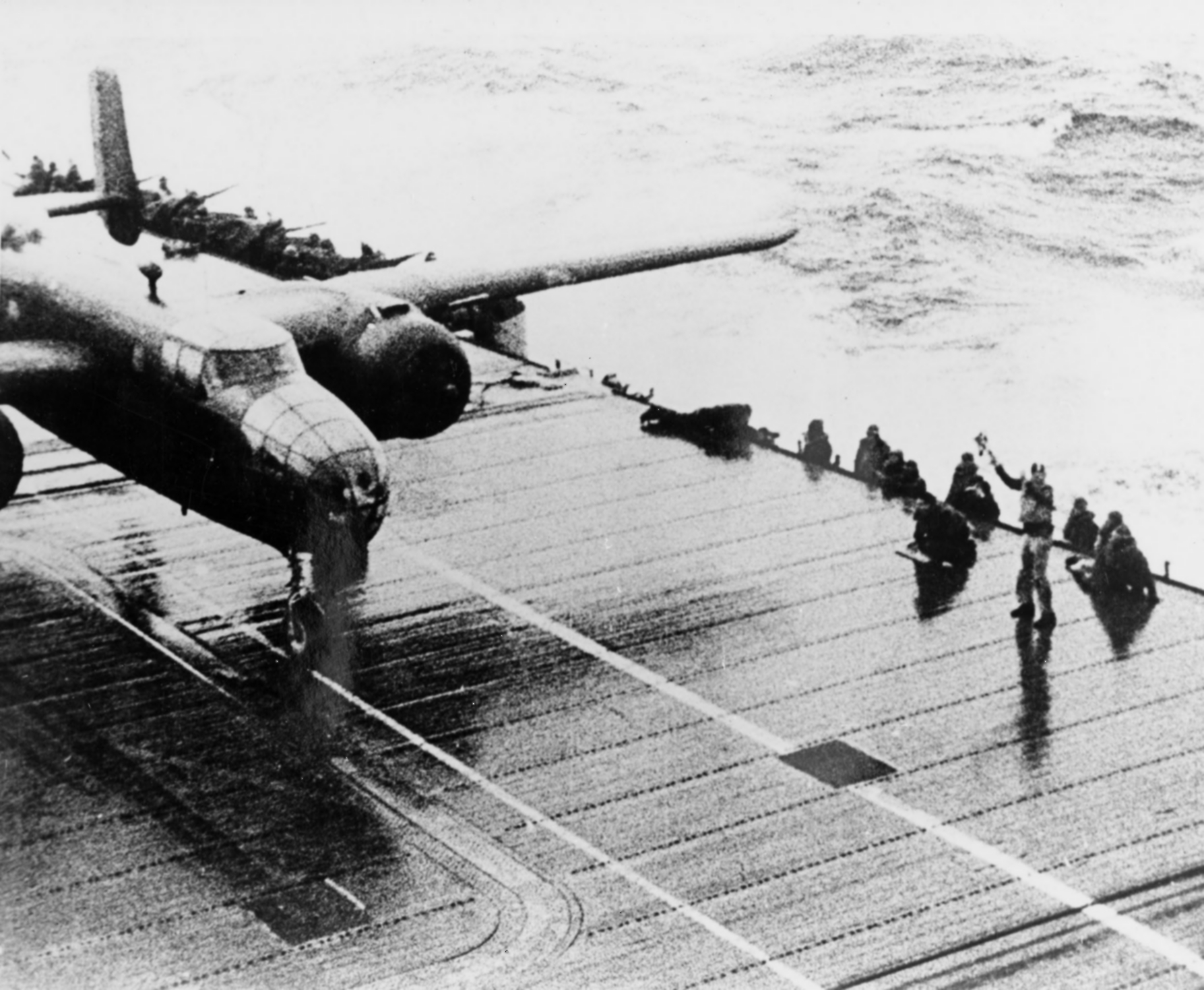 A U.S. Army Air Force North American B-25B Mitchell shortly before launching from the aircraft carrier USS Hornet (CV-8) on 18 April 1942. Original caption: "The aircraft carrier Hornet had 16 AAF B-25s on deck, ready for the Tokyo Raid. (U.S. Air Force photo)"